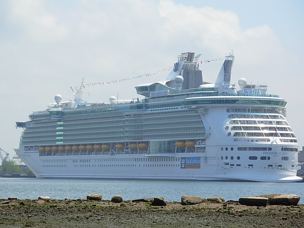 This picture was taken on May 11, 2006 the day it was christened in Bayonne, NJ at the Cape Liberty Cruise Port.